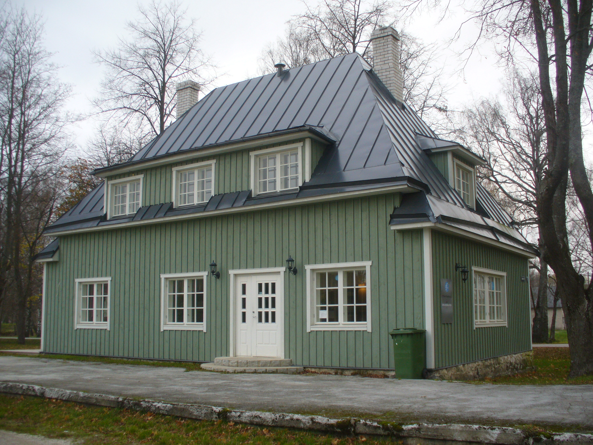 Turba railway station. Nissi parish, Harju county, Estonia. View from former railway.